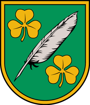 Coat of arms of Skrīveri Municipality, Latvia. Granted 8 October 2009.